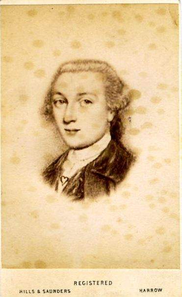 Sketch of composer Joseph Harris (1743 – 1814), held by descendants in family history files.